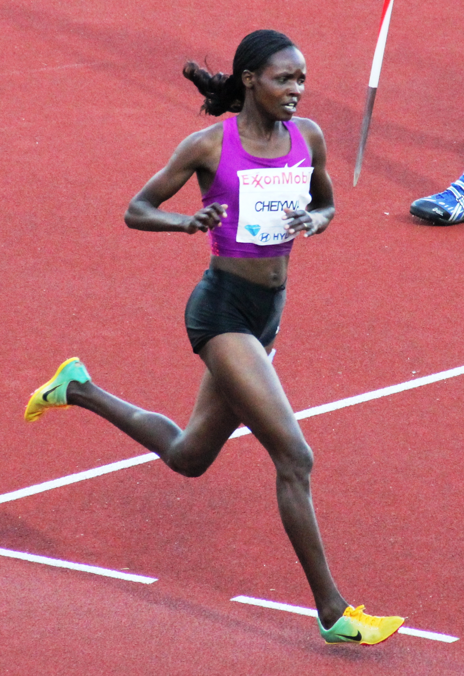 Milcah Chemos Cheiywa at the 2010 Bislett Games 3000 m Steeplechase